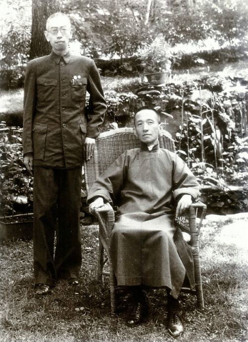 Chen Bulei and his secretary Chen Qiuyang in 1947